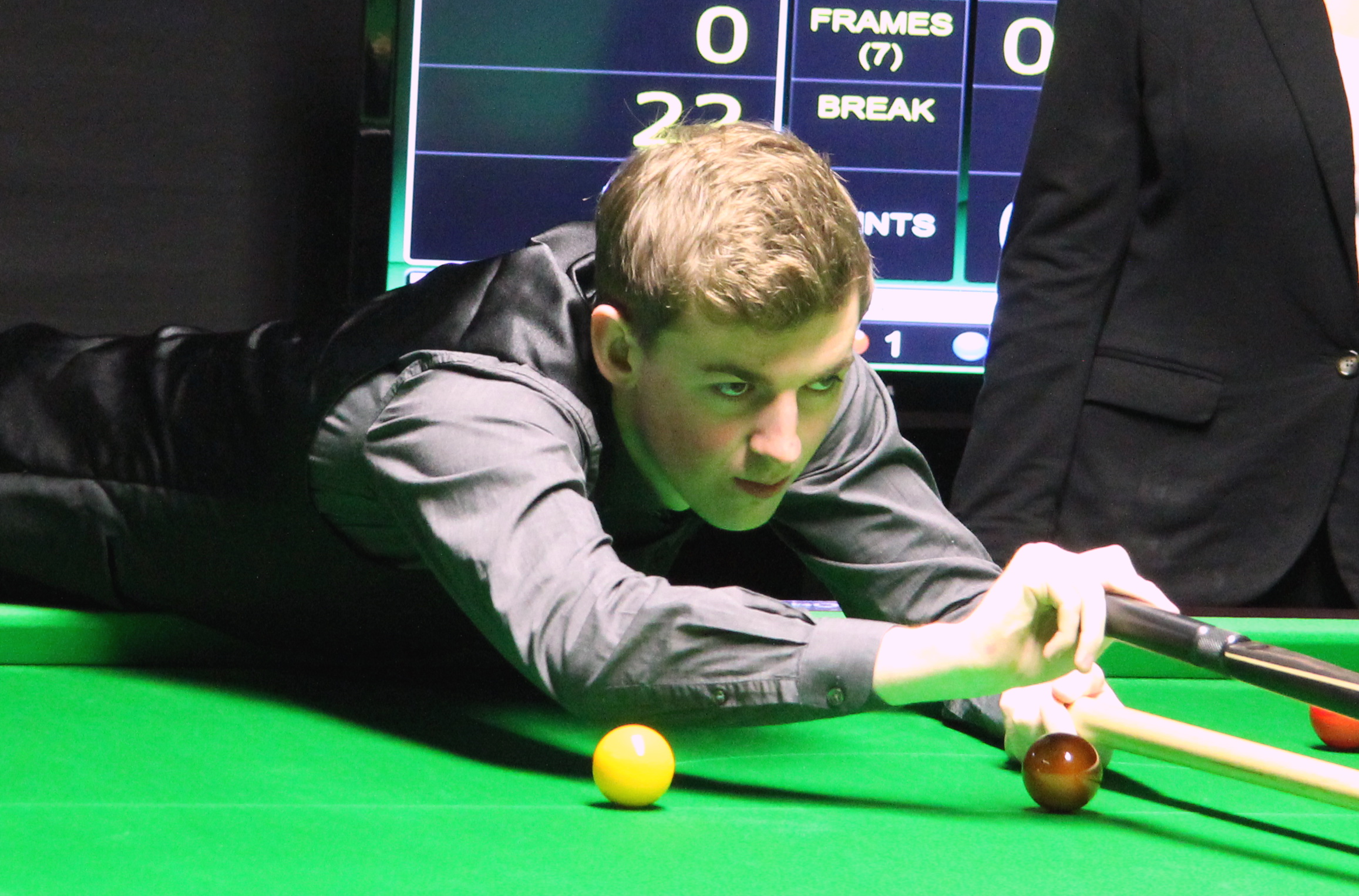 James Cahill beim Paul Hunter Classic 2016